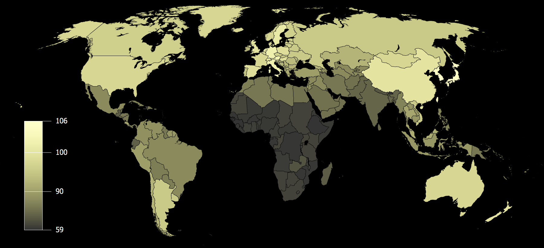 IQ by country from "IQ and the Wealth of Nations", 2002